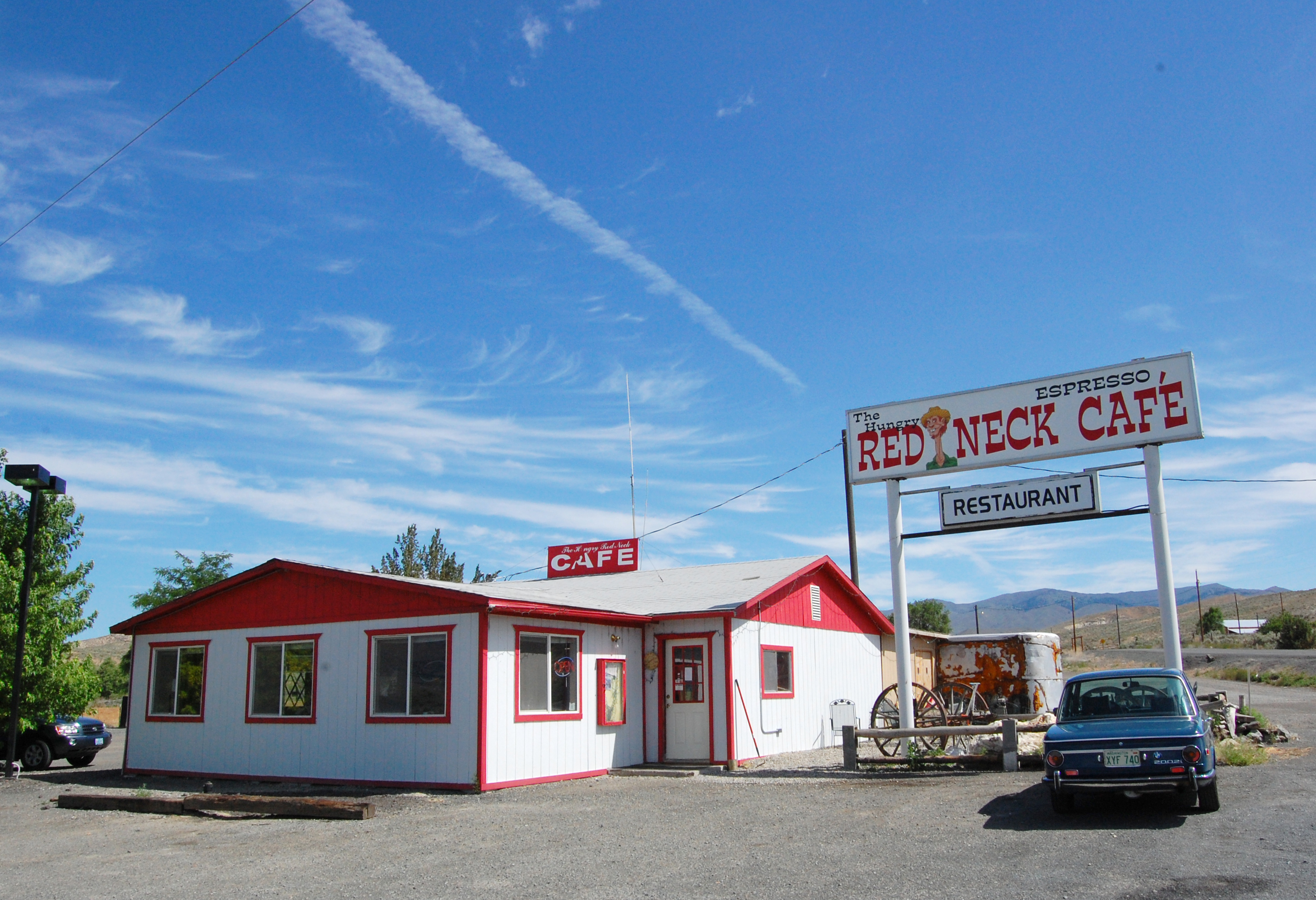 The Redneck Café in Durkee, Oregon, an unincorporated community in Baker County